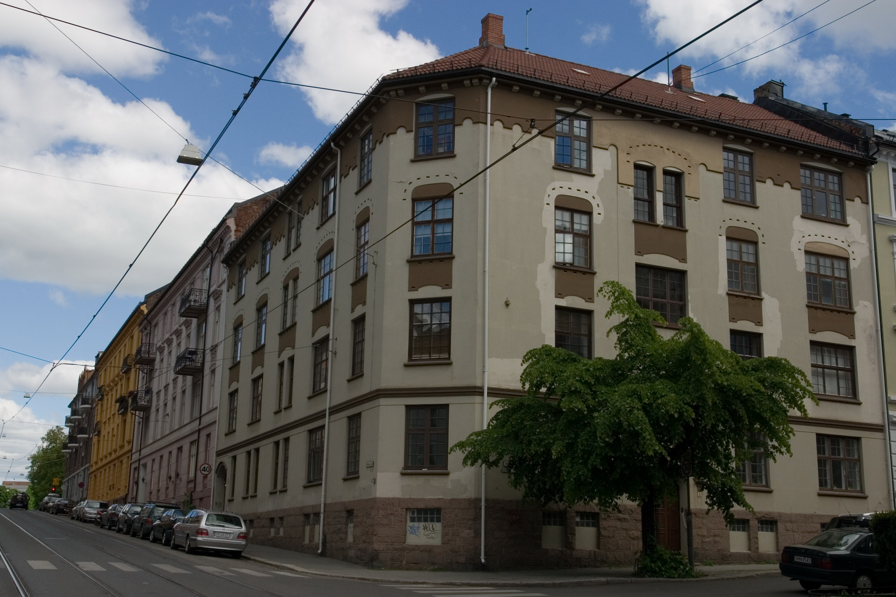 Picture of Thereses gate 8 (Oslo - Norway)